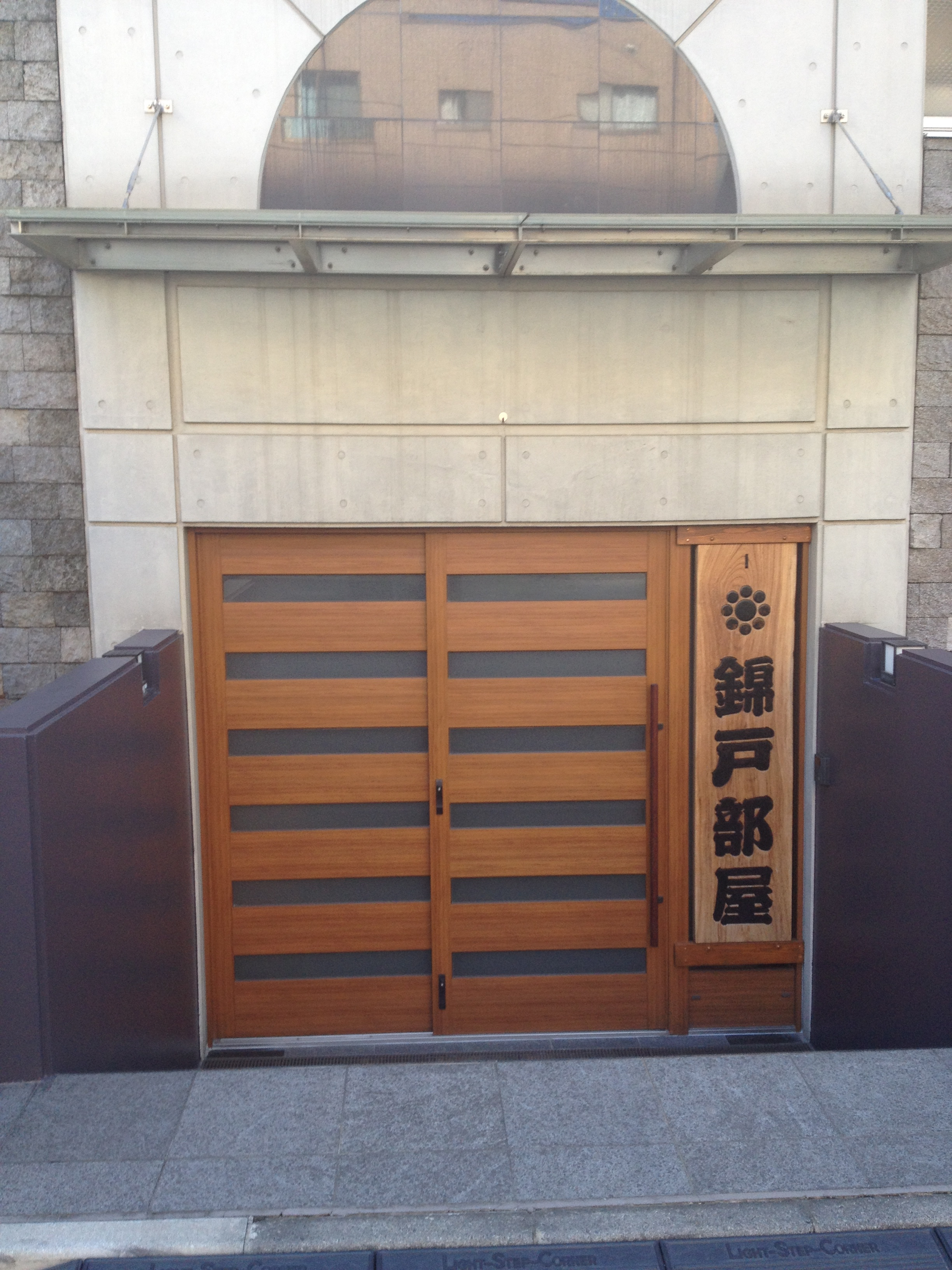 Front door of this sumo stable in Ryogoku